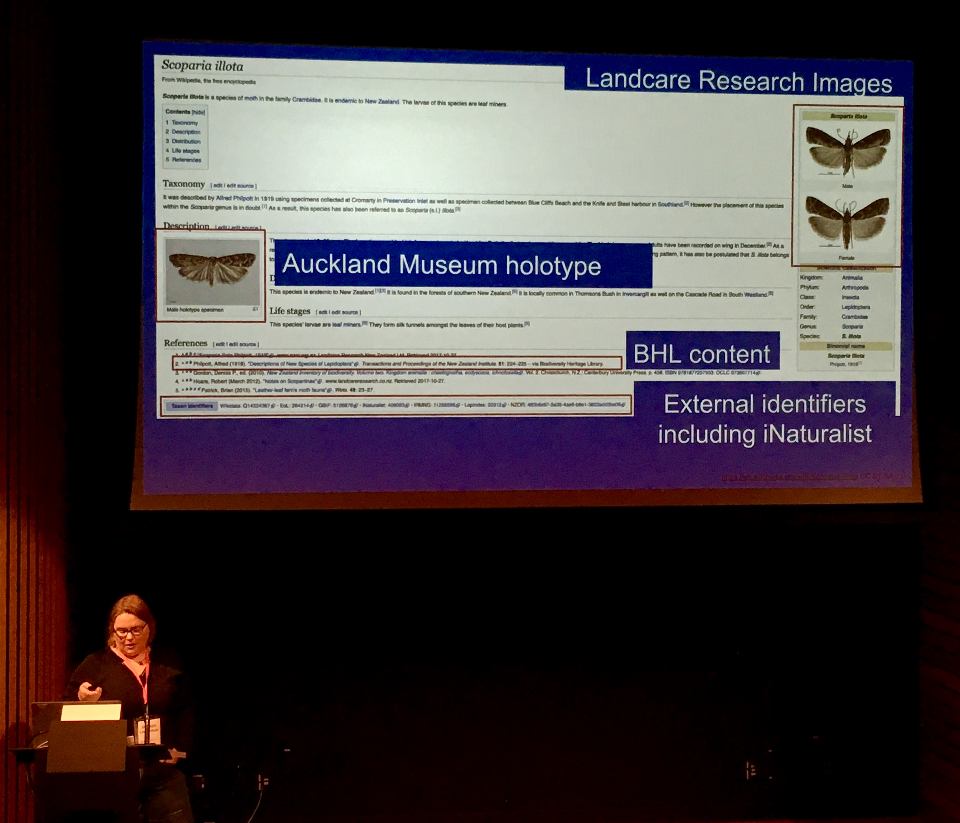 Leachman presenting on her project to describe New Zealand endemic moths combining Auckland Museum holotypes, Wikidata, iNaturalist identifiers, and Biodiversity Heritage Library citations